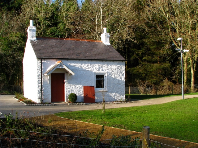 Restored lock keeper's cottage near Shaw's Bridge Recently restored lock keeper's cottage near Shaw's Bridge in Belfast. It sits beside the now disused Lock No.3 on what was the Lagan Navigation Canal. A vernacular two-storey house with four rooms, it was built between 1827 and 1834. When the Lagan Navigation Company was dissolved in 1954, the lock keeper bought the cottage and stayed there until his death, willing it to one of his daughters who in turn sold it to the council so that it would stay in public hands.